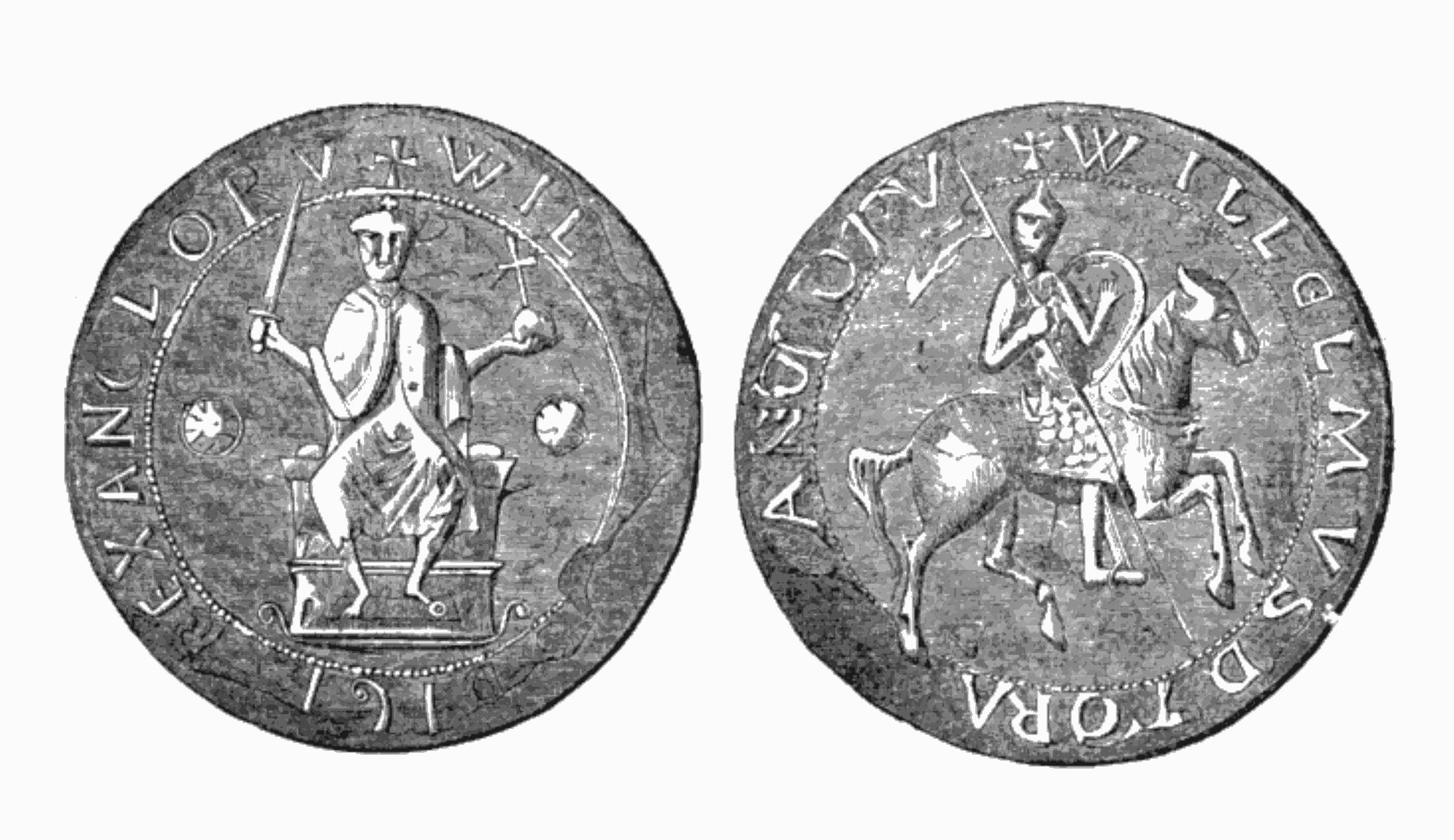 Great Seal of William Rufus, King of England (1087-1100) from 'The pictorial history of England', by George Lillie Craik and al., published by Harper & Brothers, 1846.